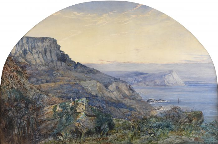 Ventnor, Isle of Wight by Barbara Bodichon, 1856, watercolor and gouache on paper, 28 x 42 1/2 inches, Delaware Art Museum